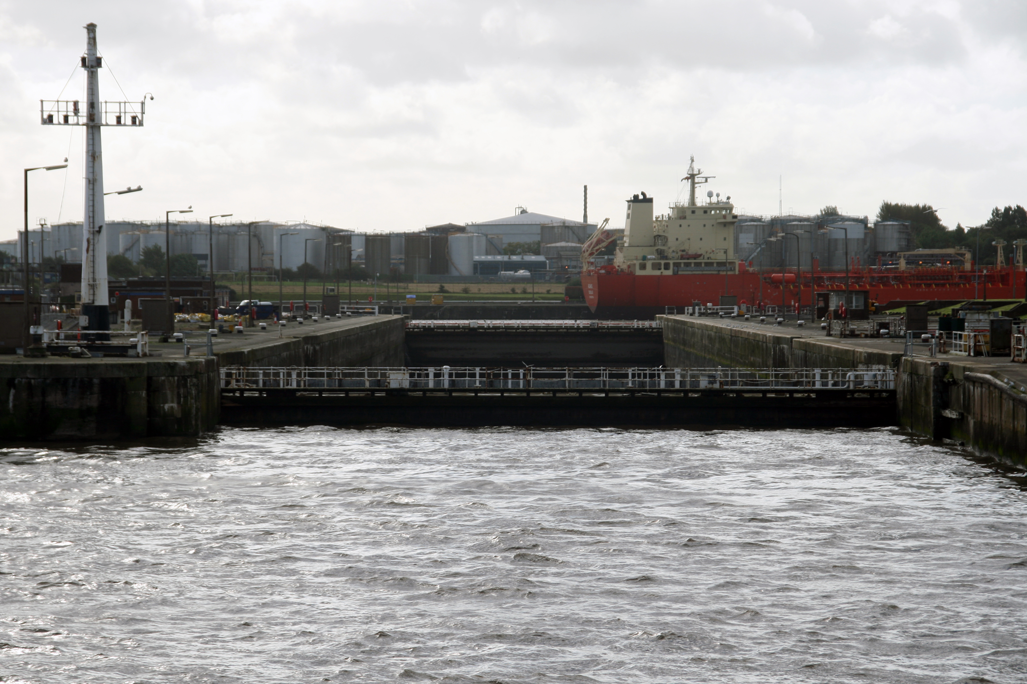 The entrance to the QEII Dock at Eastham.